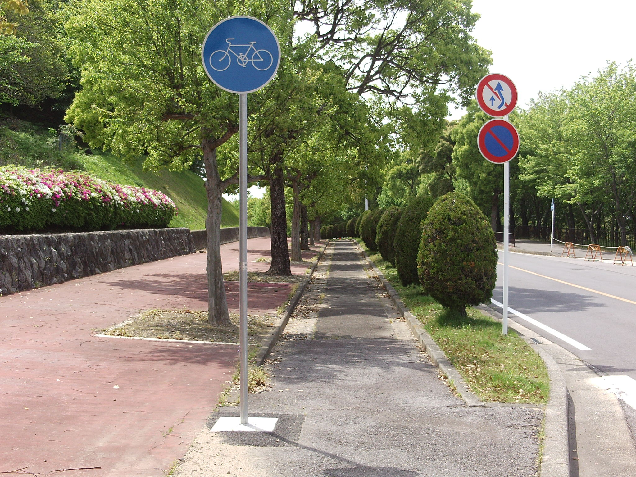 Aichi prefectural road No.330 Bicycle Track in Higashihazucho, Nishio, Aichi.